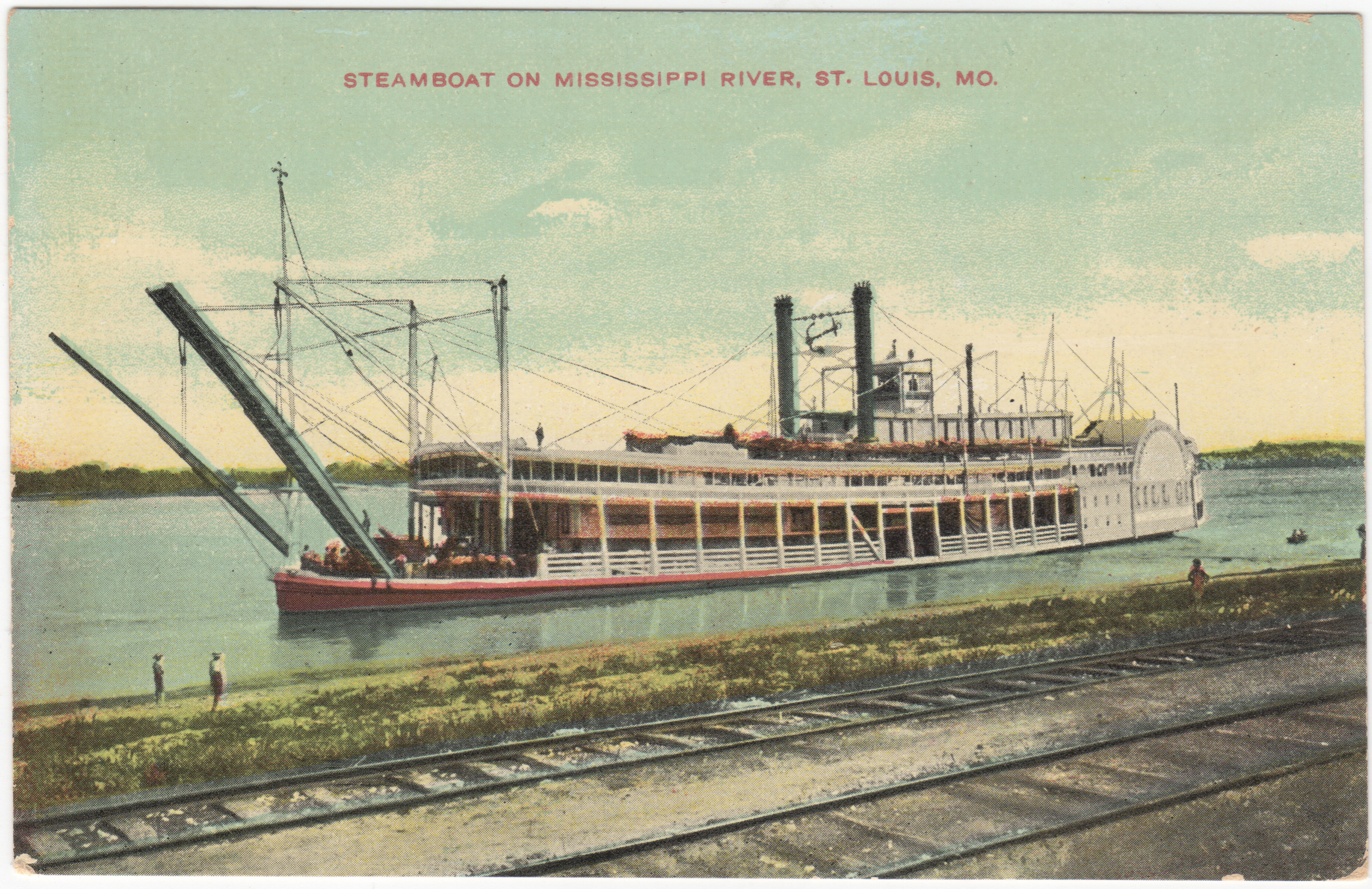 Postcard of the Hill City, built for the Anchor Line originally as the City of Monroe in 1887 and enlarged and renamed in 1898. Use outside of Wikipedia and its sister projects requires attribution: "Postcard, collection of Peter Clericuzio."